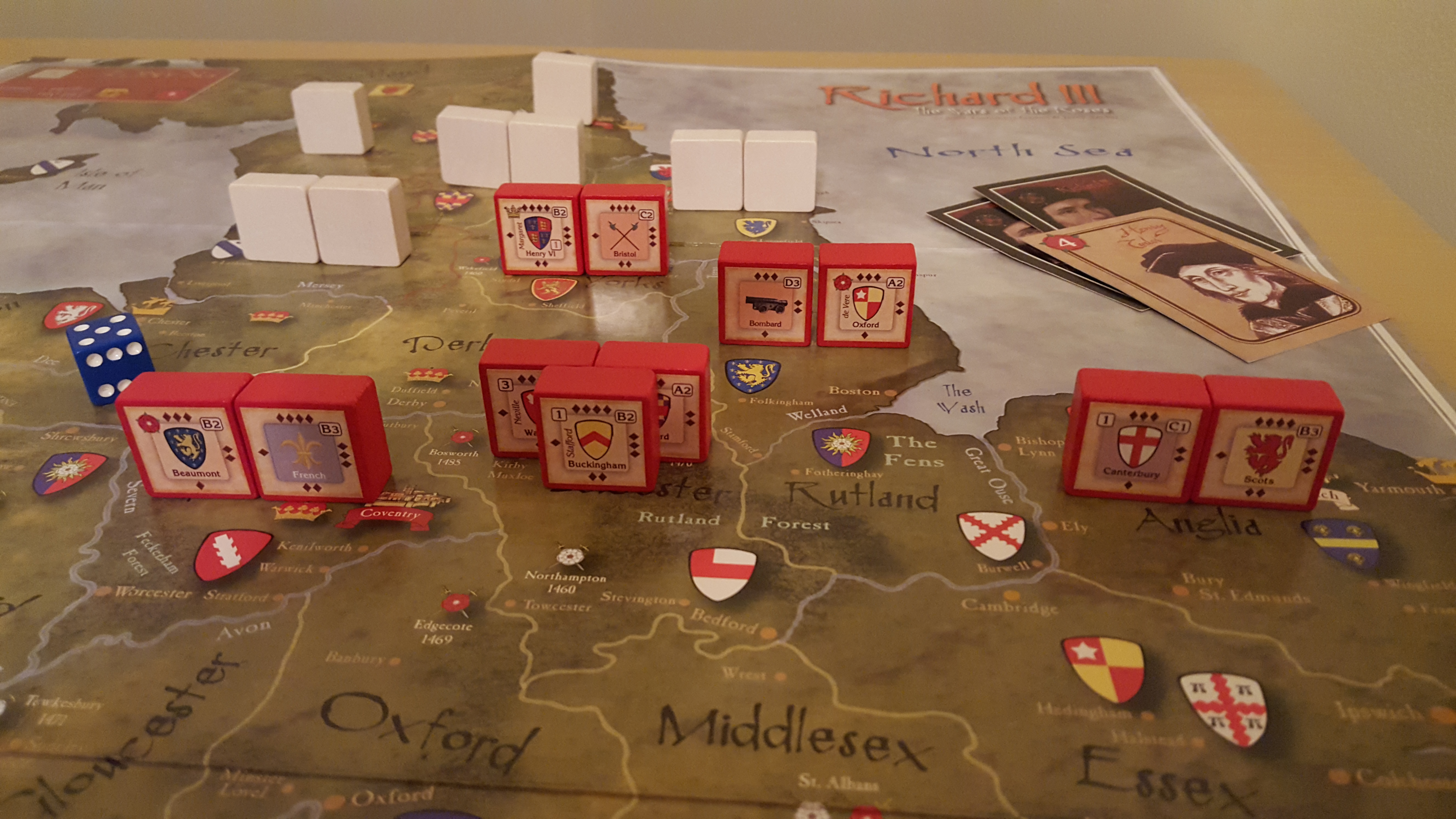 A game of Richard III from Columbia Games which shows with the fog of war in play. Each player can only see strength and type of their own forces.